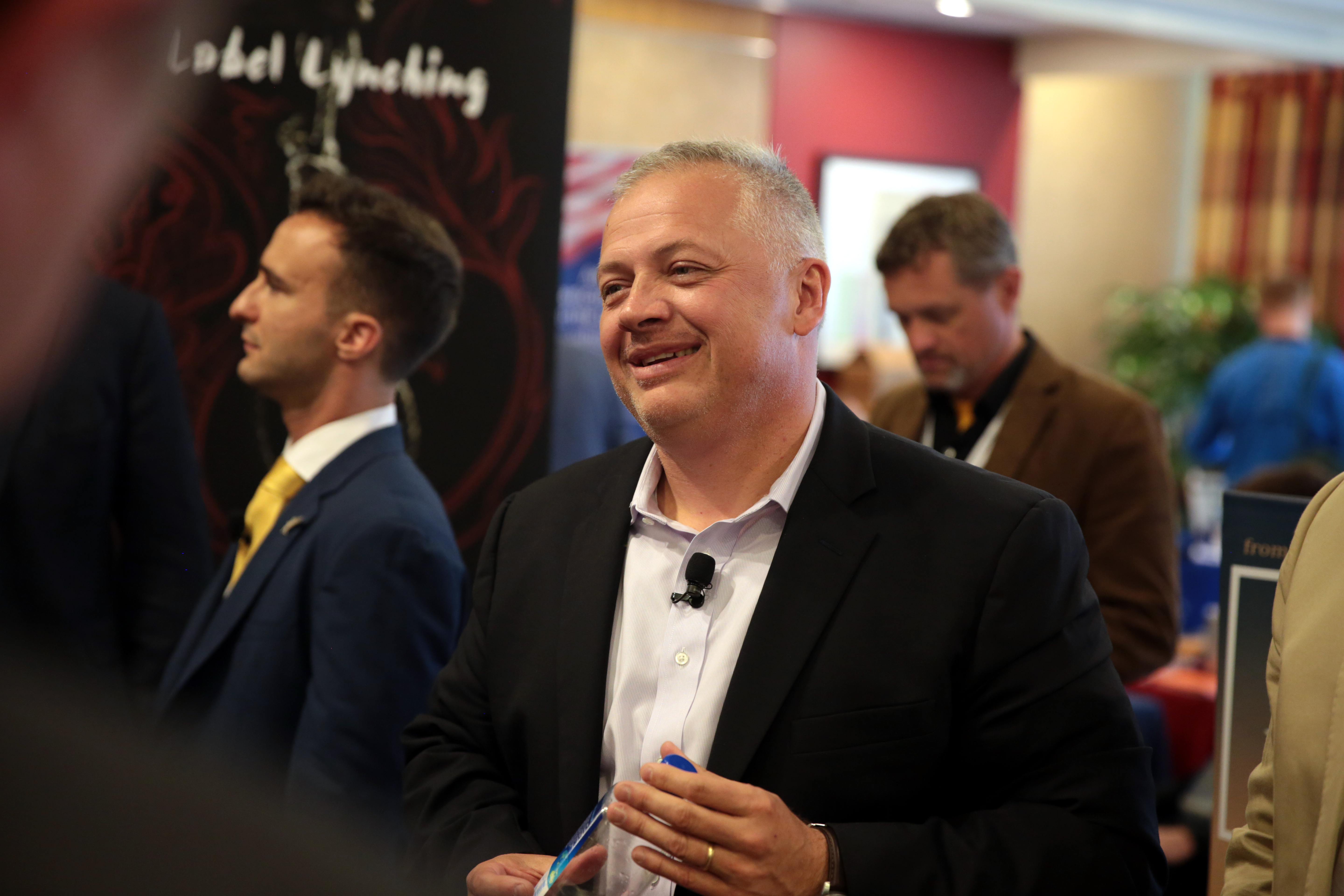 Denver Riggleman speaking with attendees at the 2018 Young Americans for Liberty National Convention at the Sheraton Reston Hotel in Reston, Virginia.